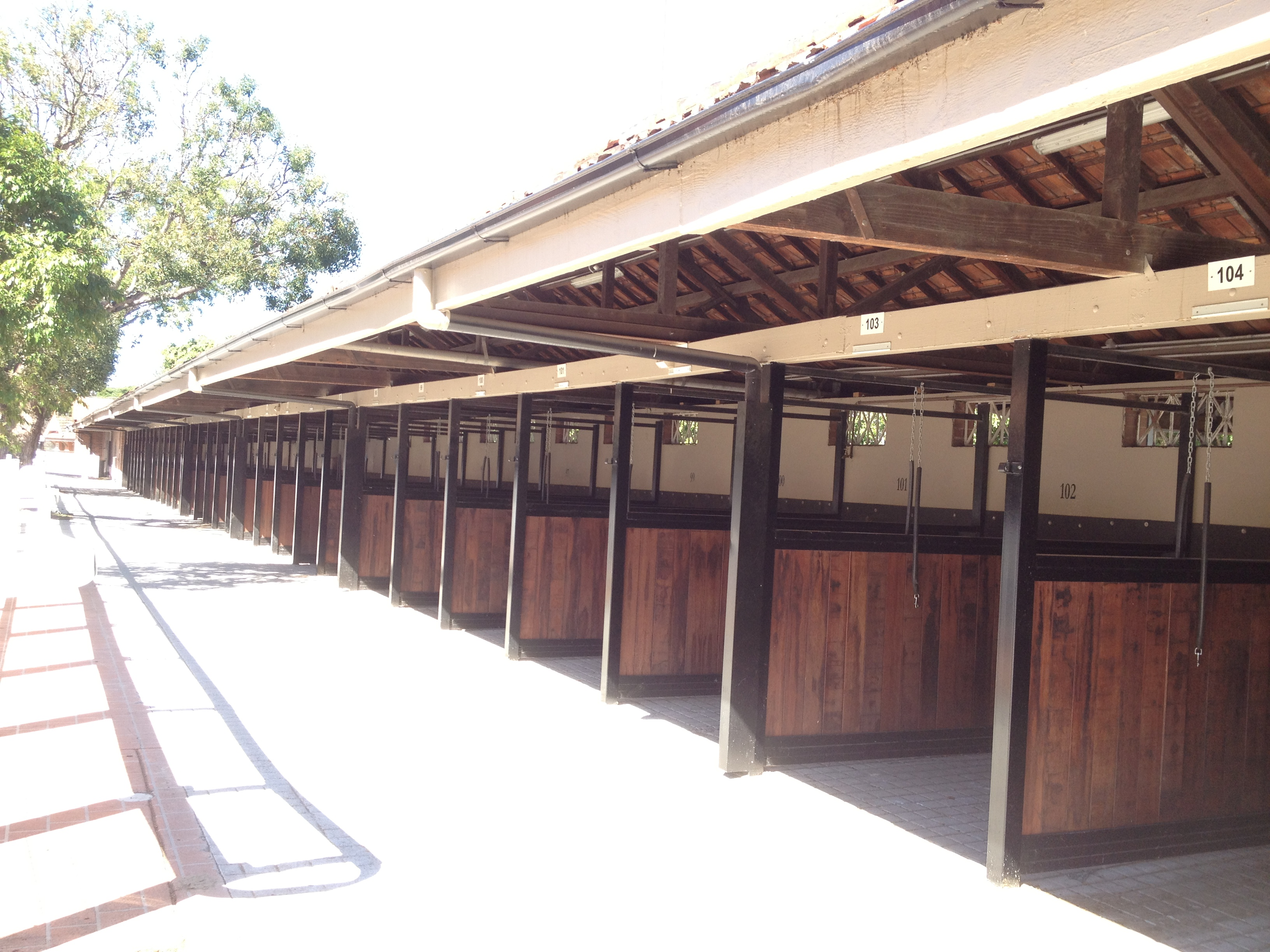 Stables, Eagle Farm Racecource May 2013